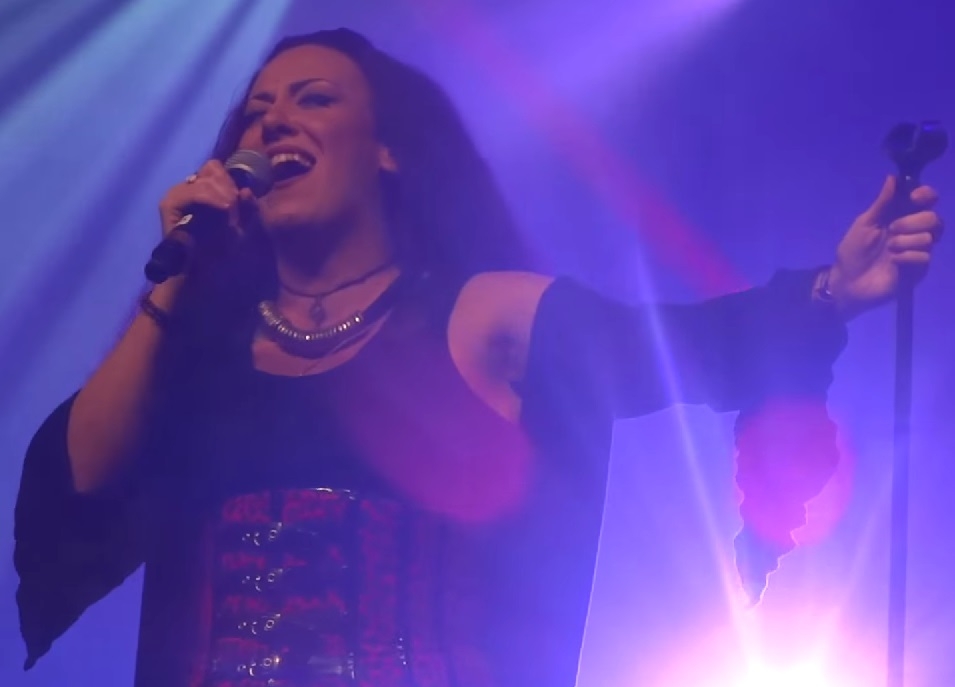 Singer